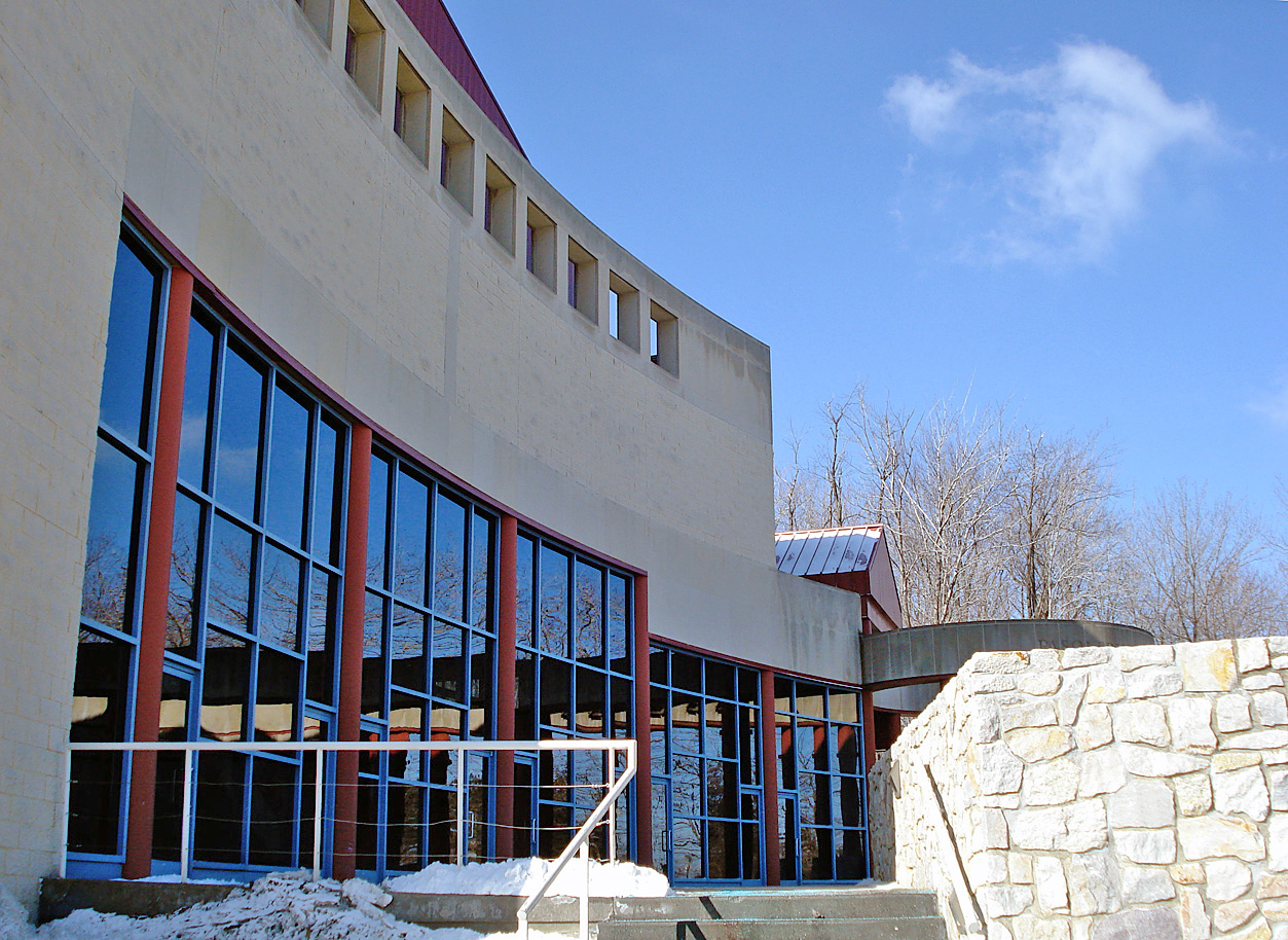 Pasquerilla Performing Arts Center at the University of Pittsburgh at Johnstown